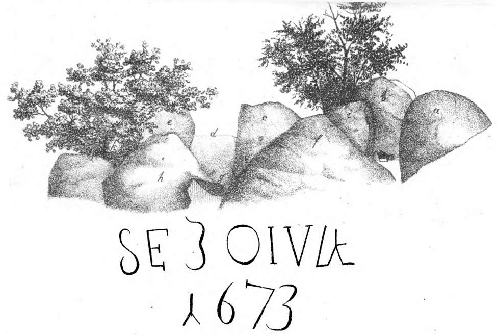 The megalithic tomb Nartum, drawing from 1826